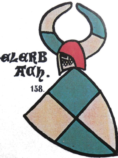 Coat of arms of Ellerbach family